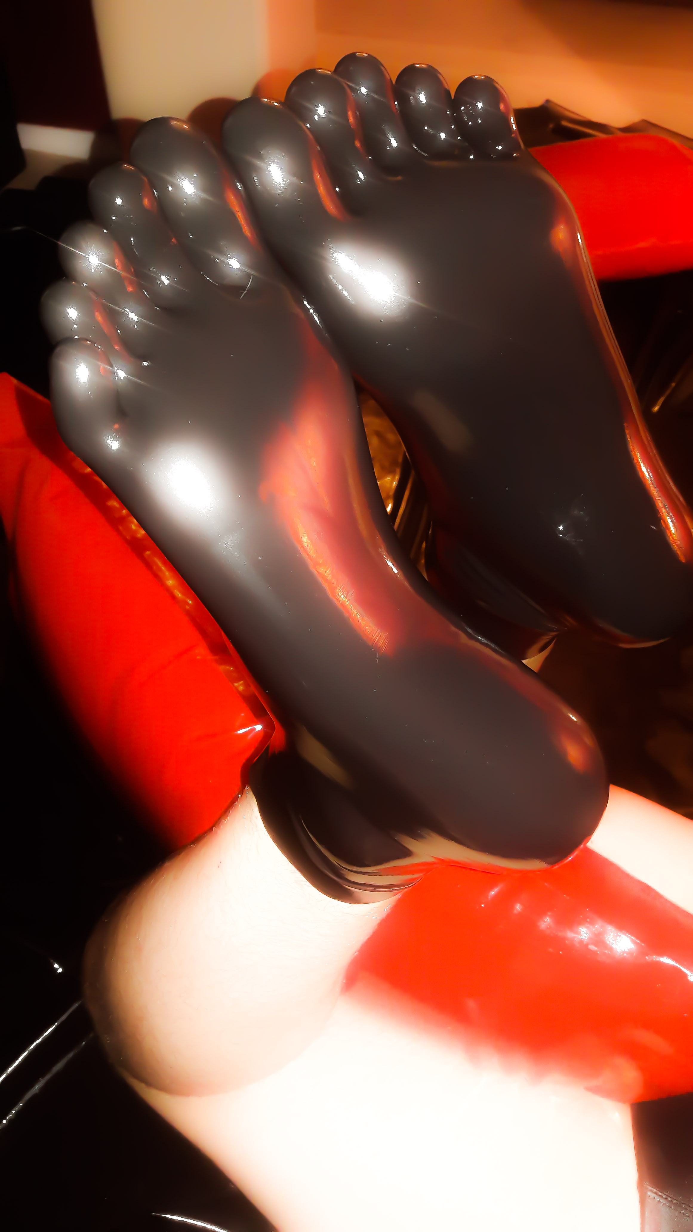 Polished black latex toe socks on red latex pillow background.